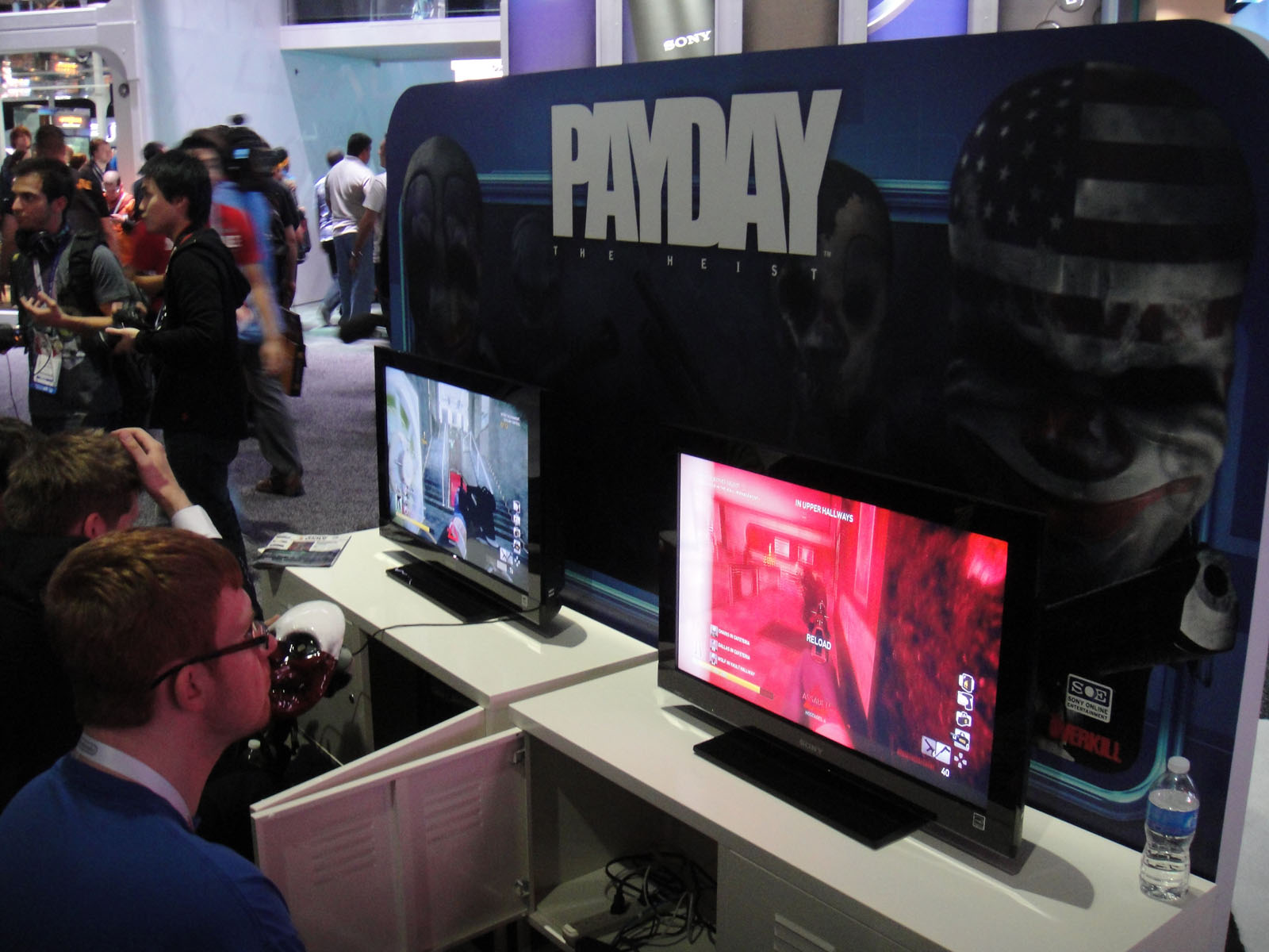 photo 2011 taken by Doug Kline If you're interested in higher resolution versions of my images, contact me via my profile page.